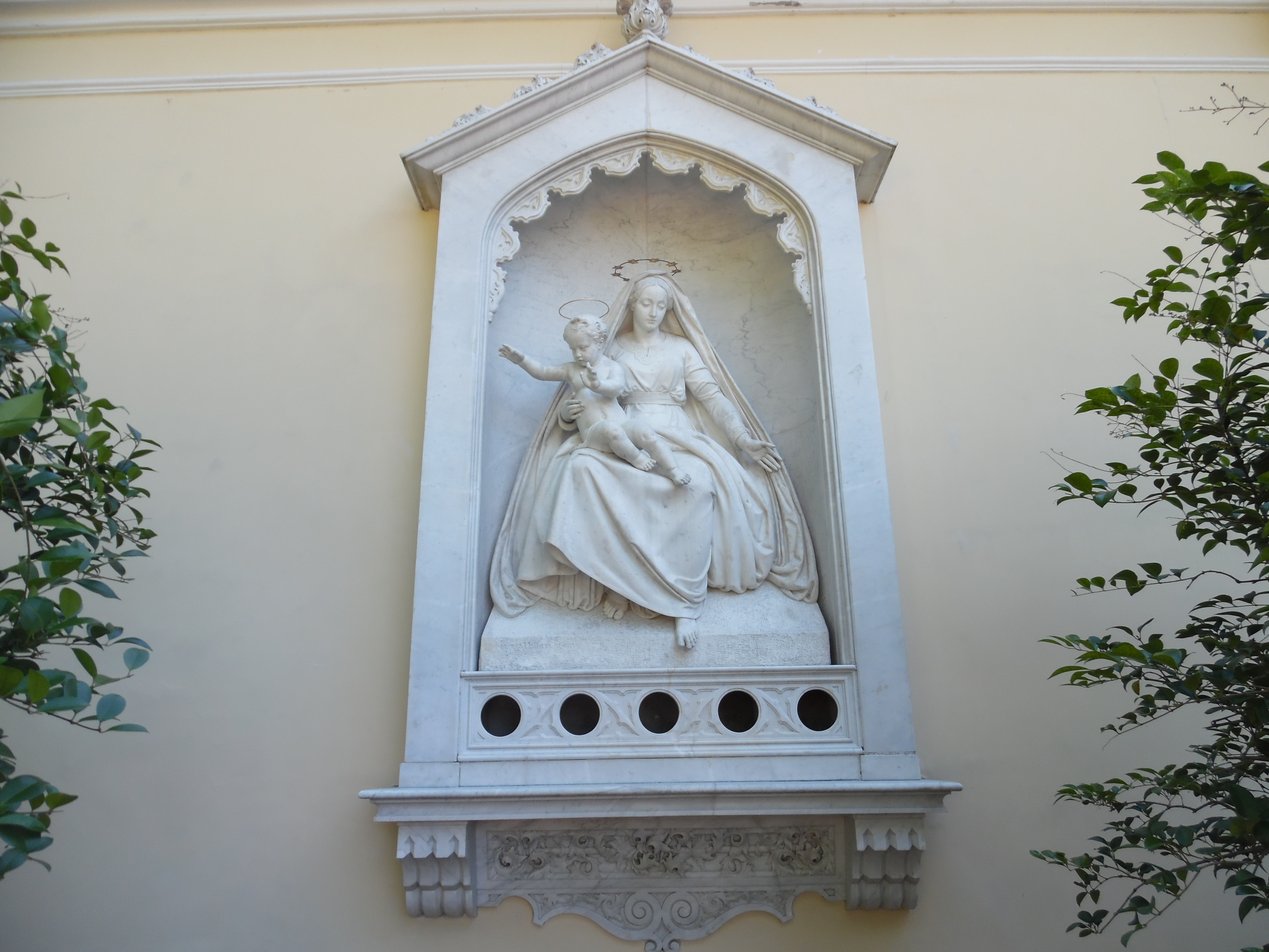 The relief "Madonna with child", the Cottage Palace, Peterhof